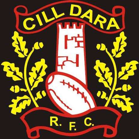 Crest of Cill Dara Rugby Football Club in Ireland.